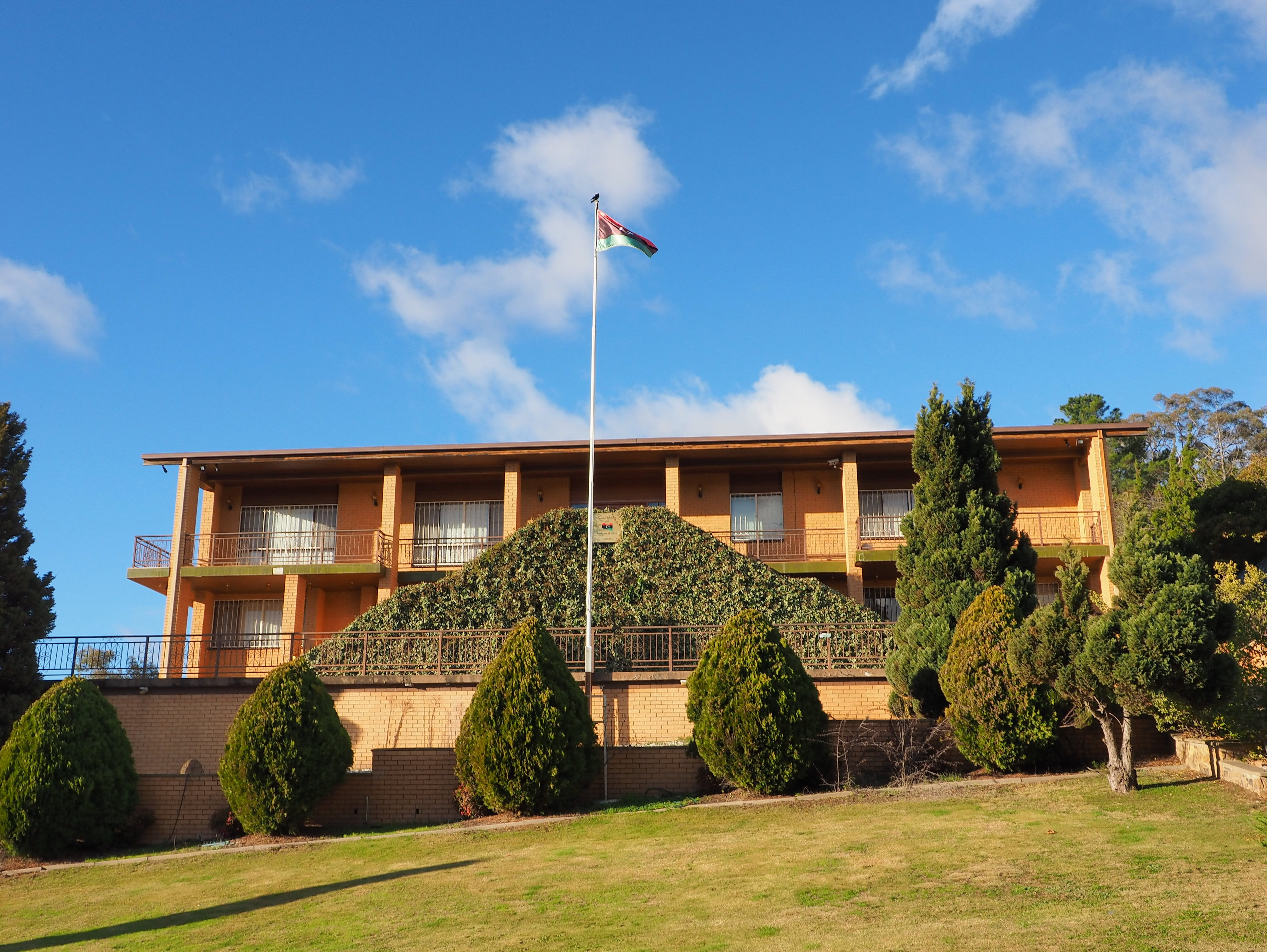 The Embassy of Libya to Australia